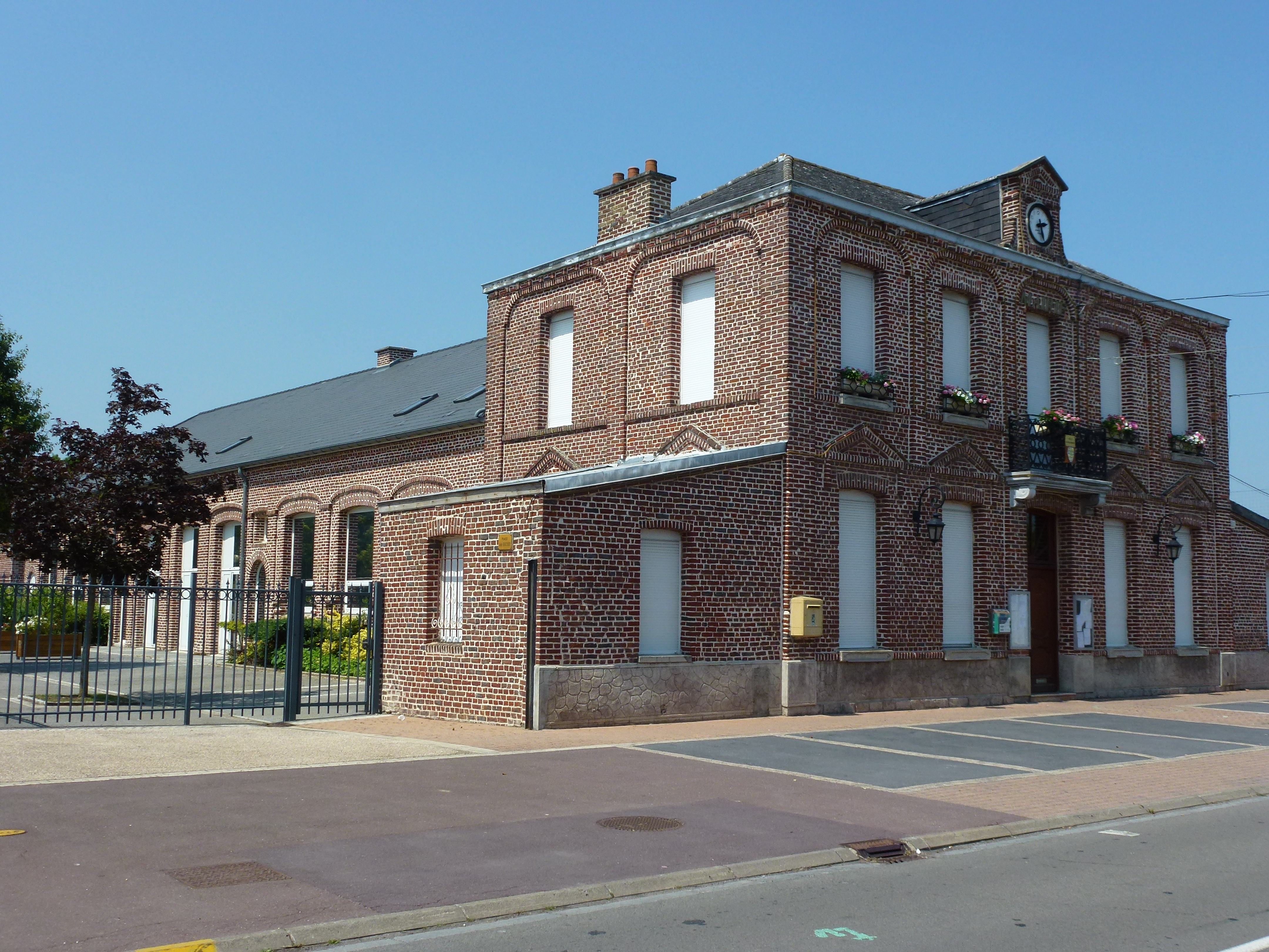 Hélesmes (Nord, Fr) mairie